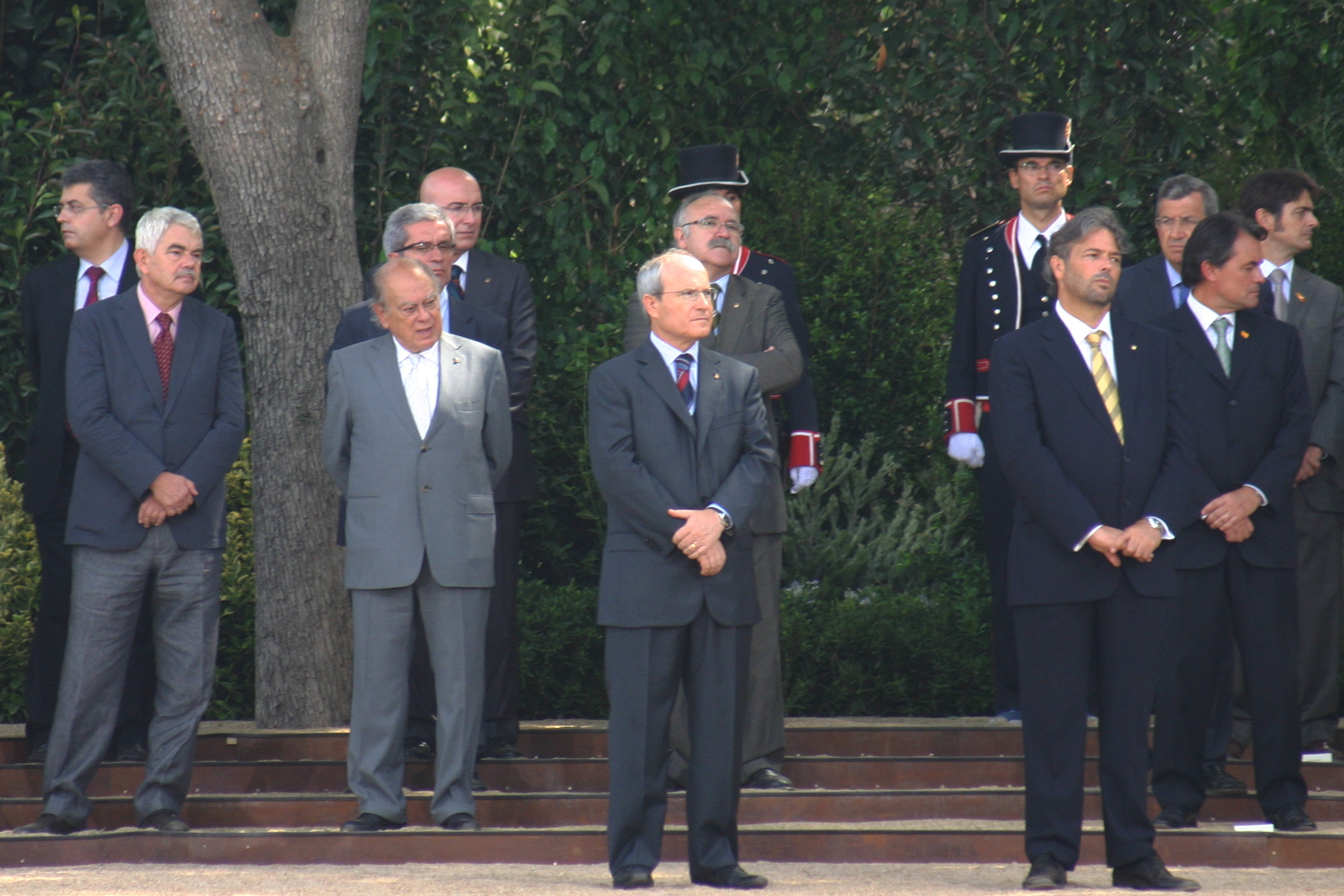 Members of the Parliament of Catalonia. 11th September. (Parc de la Ciutadella, Barcelona)